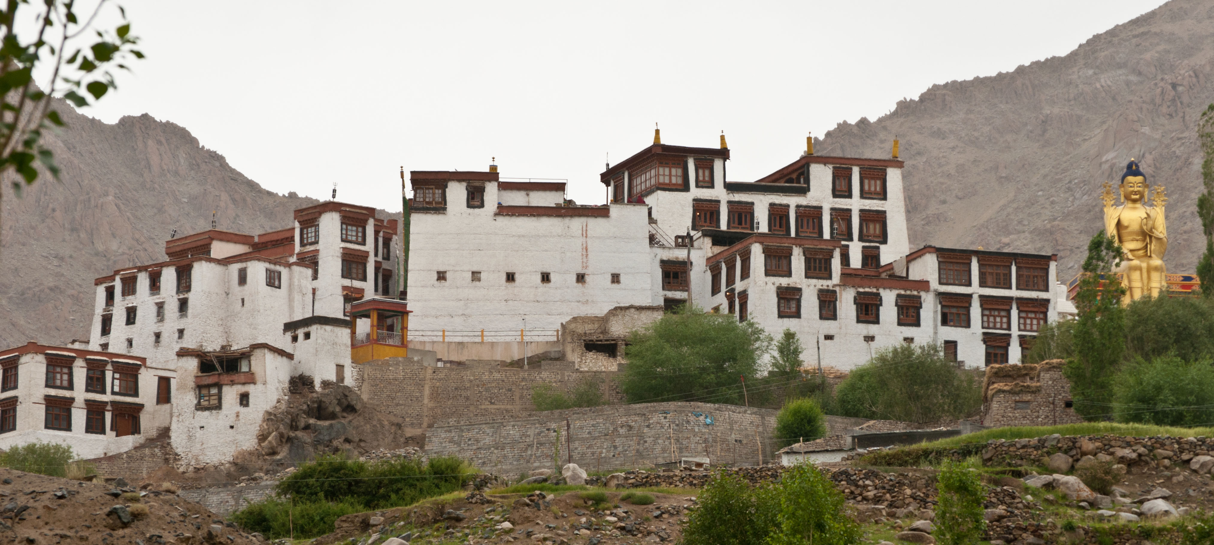 Buddhist Monastery